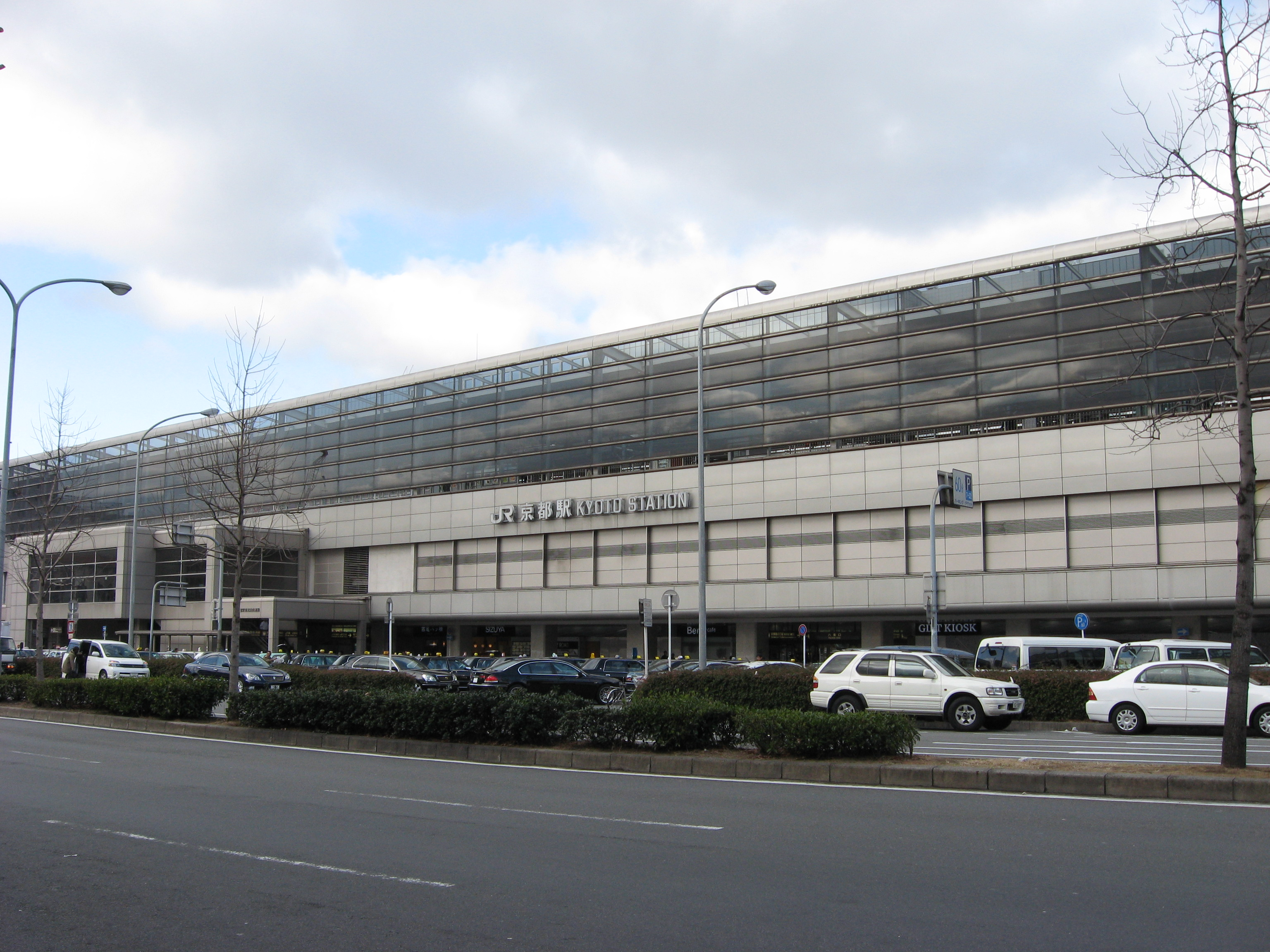 Kyoto Station Hachijo Entrance East Side